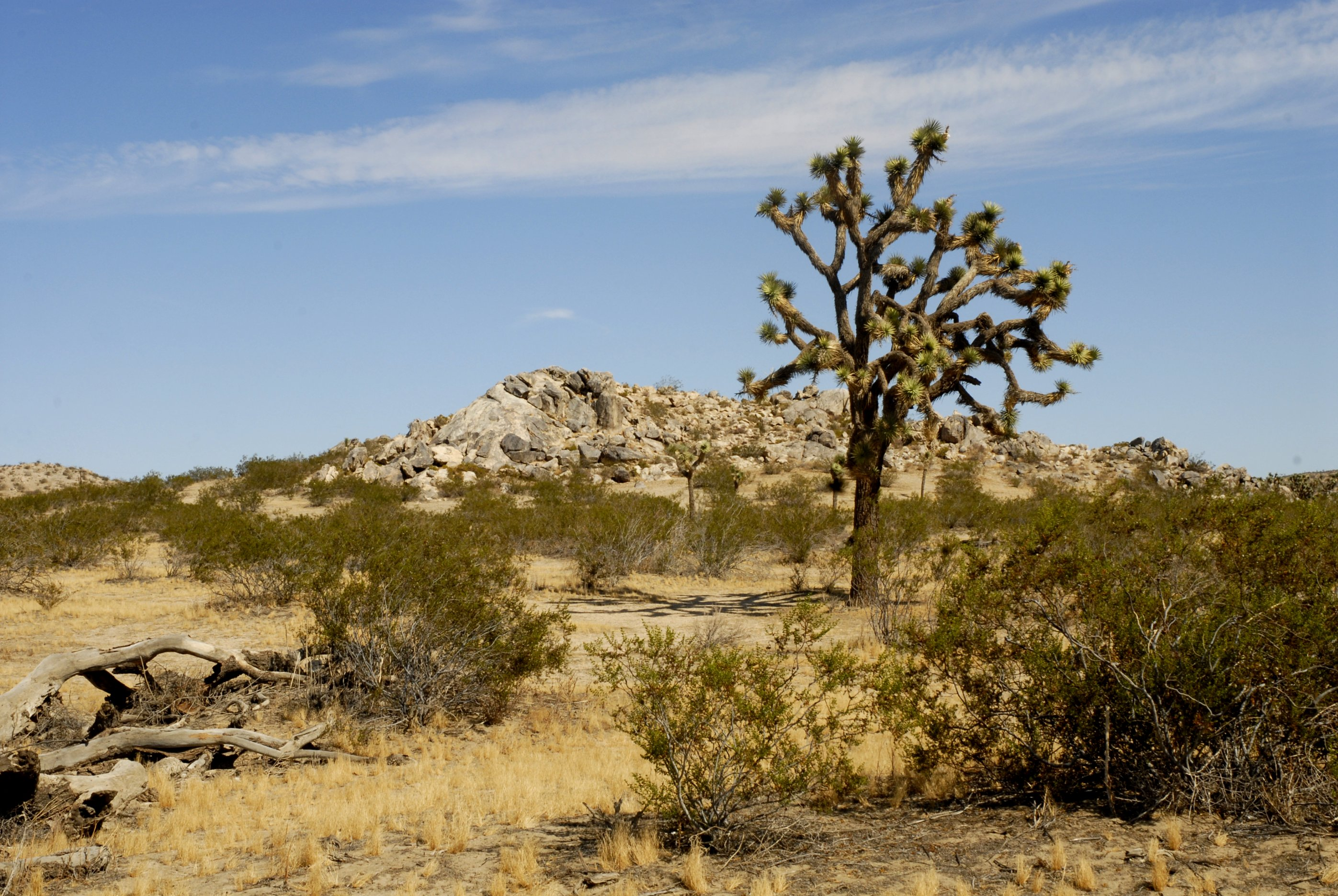 A picture taken in the California desert near Lancaster.